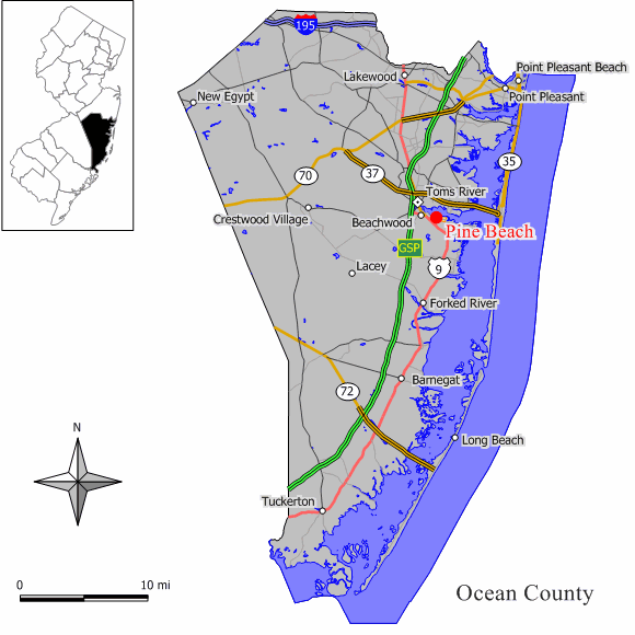 Source: Jim Irwin Original work by Jim Irwin, December 2005.